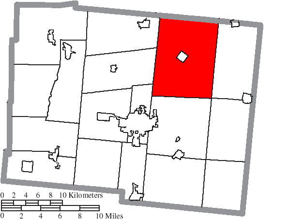 Map of the municipal and township boundaries of Logan County, Ohio, United States, as of the 2000 census, with the location of Rushcreek Township highlighted. Township borders are shown only in unincorporated areas in order to differentiate incorporated and unincorporated areas more clearly.